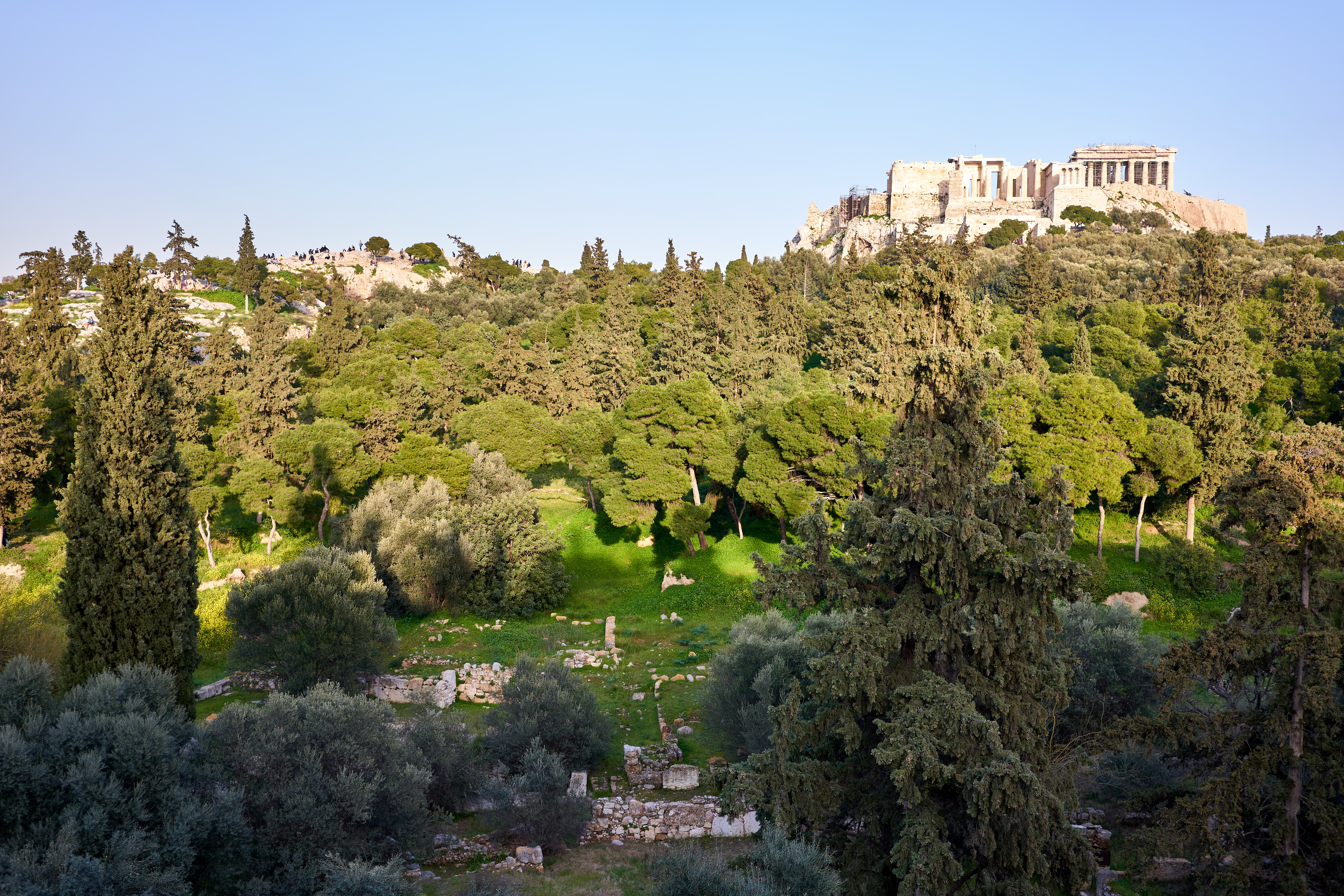 The Areopagus is near the upper left corner of the picture while the Acropolis is near the upper right. The ruins of the ancient Deme of Kollytos lie under them. View from the Hill of Pnyx over Apostolou Pavlou Pedestrian Street. Athens, Greece.